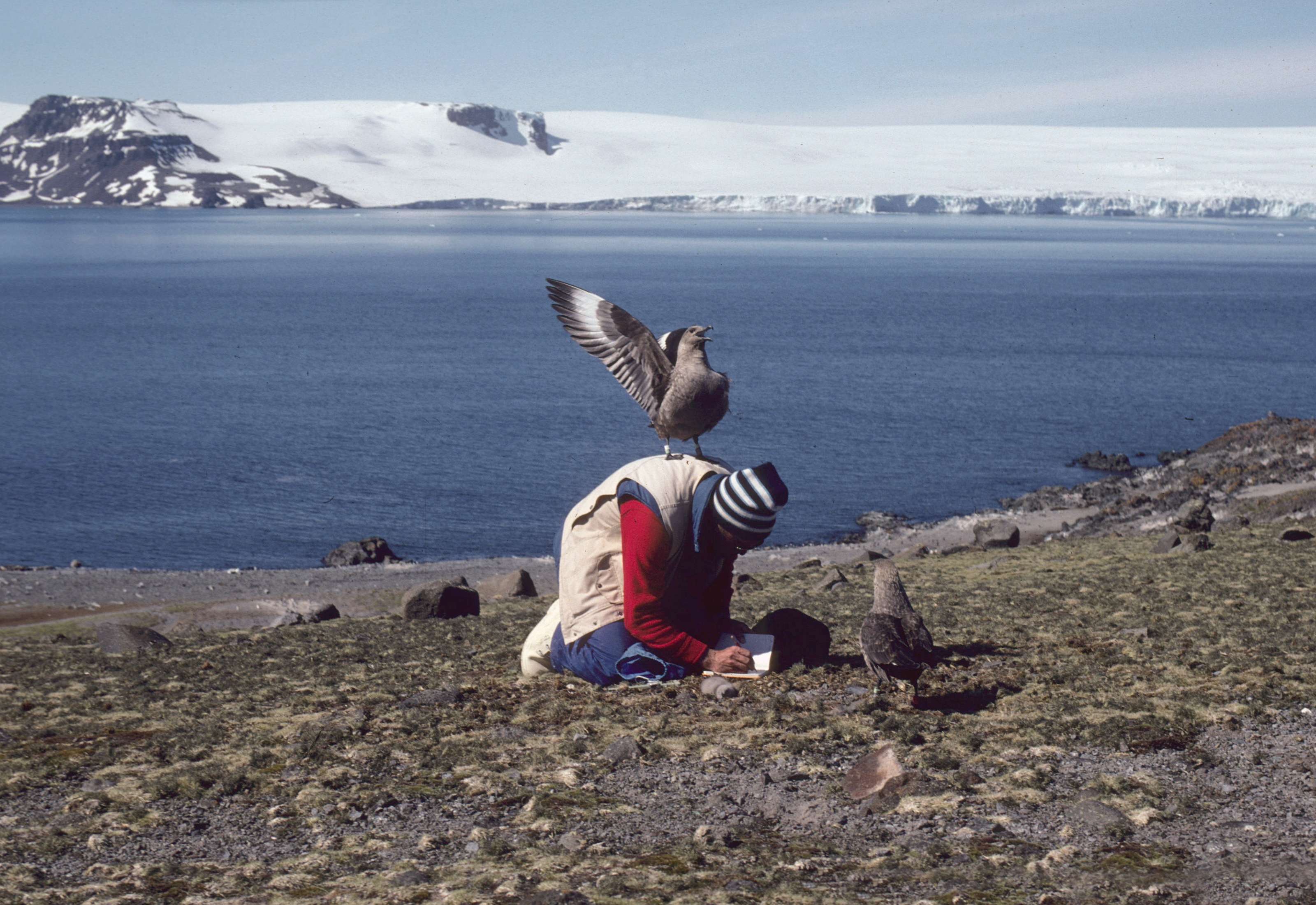 Antarctica.